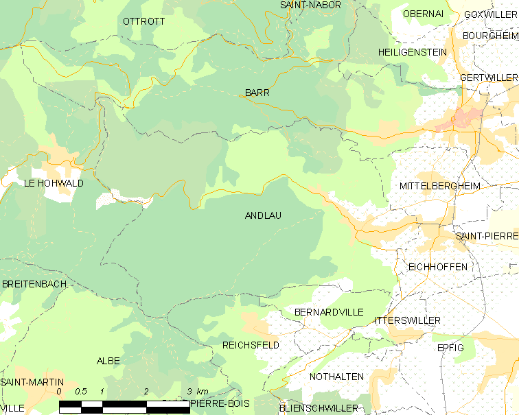 Map of French municipality